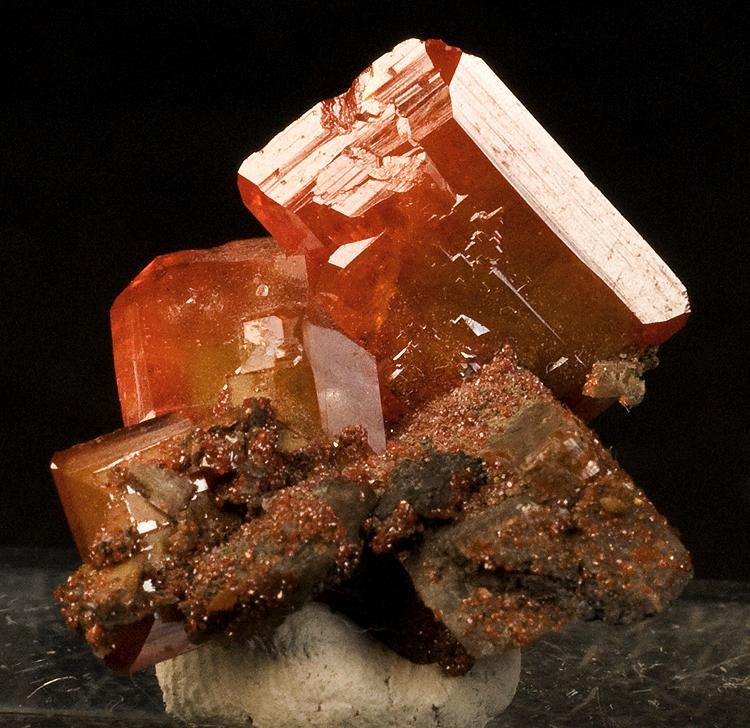 Wulfenite Locality: Red Cloud Mine, Silver District, Trigo Mts, La Paz County, Arizona, USA (Locality at ) Size: 2.3 x 2.2 x 1.9 cm. A fine thumbnail cluster of three wulfenite crystals perched on a calcite cleavage rhomb from the Red Cloud Mine. The gemmy and highly lustrous, reddish-orange crystals with some yellow-brown interior color-zoning reach 1.4 cm and have classic, sharp, beveled edges. Wulfenite on a distinct calcite cleavage rhomb is uncommon from this renowned locale. We believe this piece is from 1960s finds. Ex. Mijer Collection.